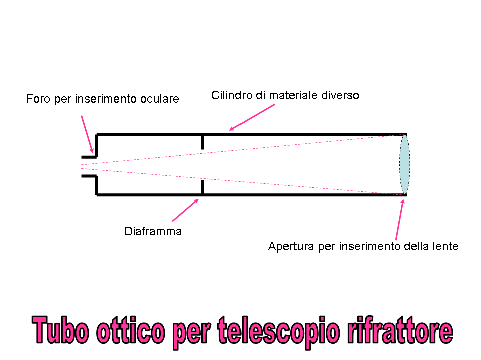 Optical tube for refractor telescope